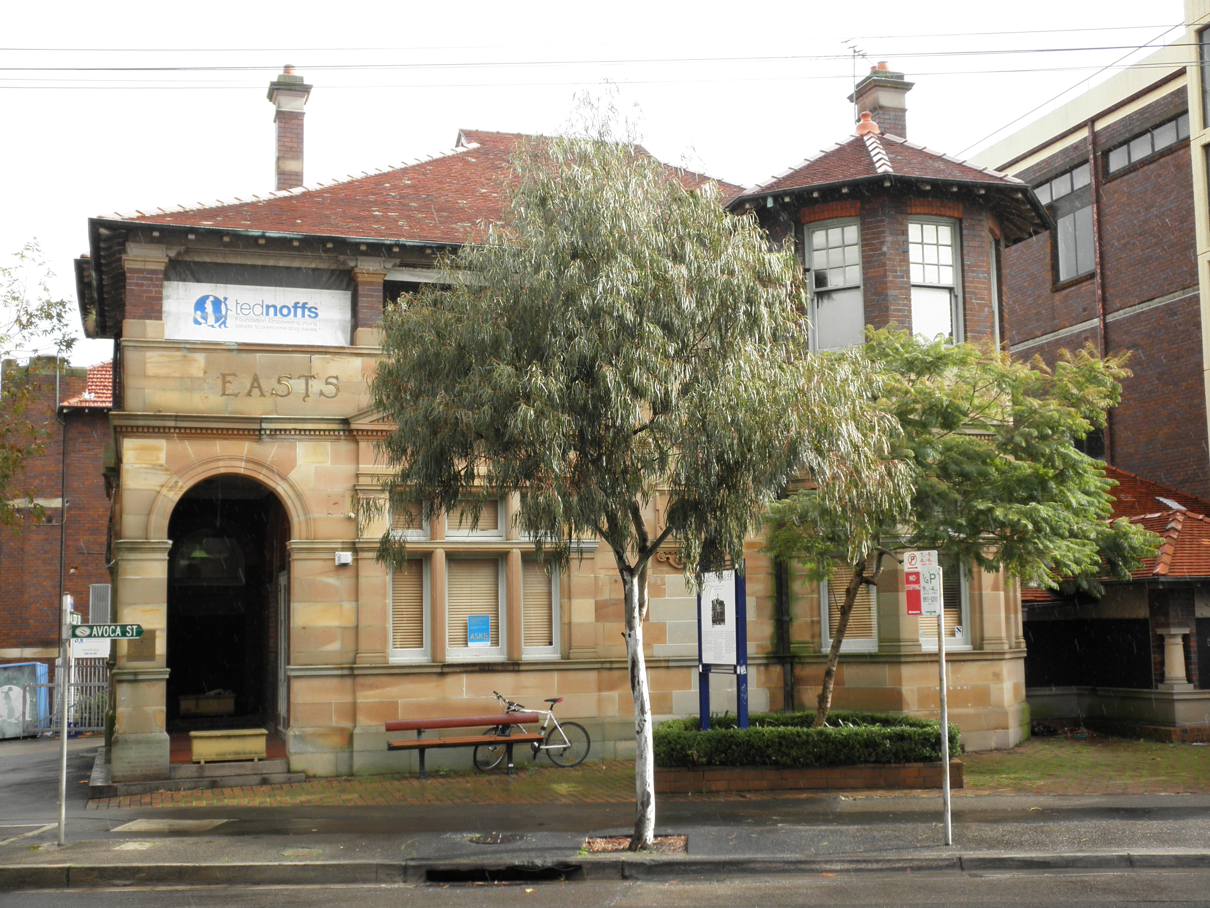 Ted Noffs Foundation Inc -- former post office, Randwick, Sydney